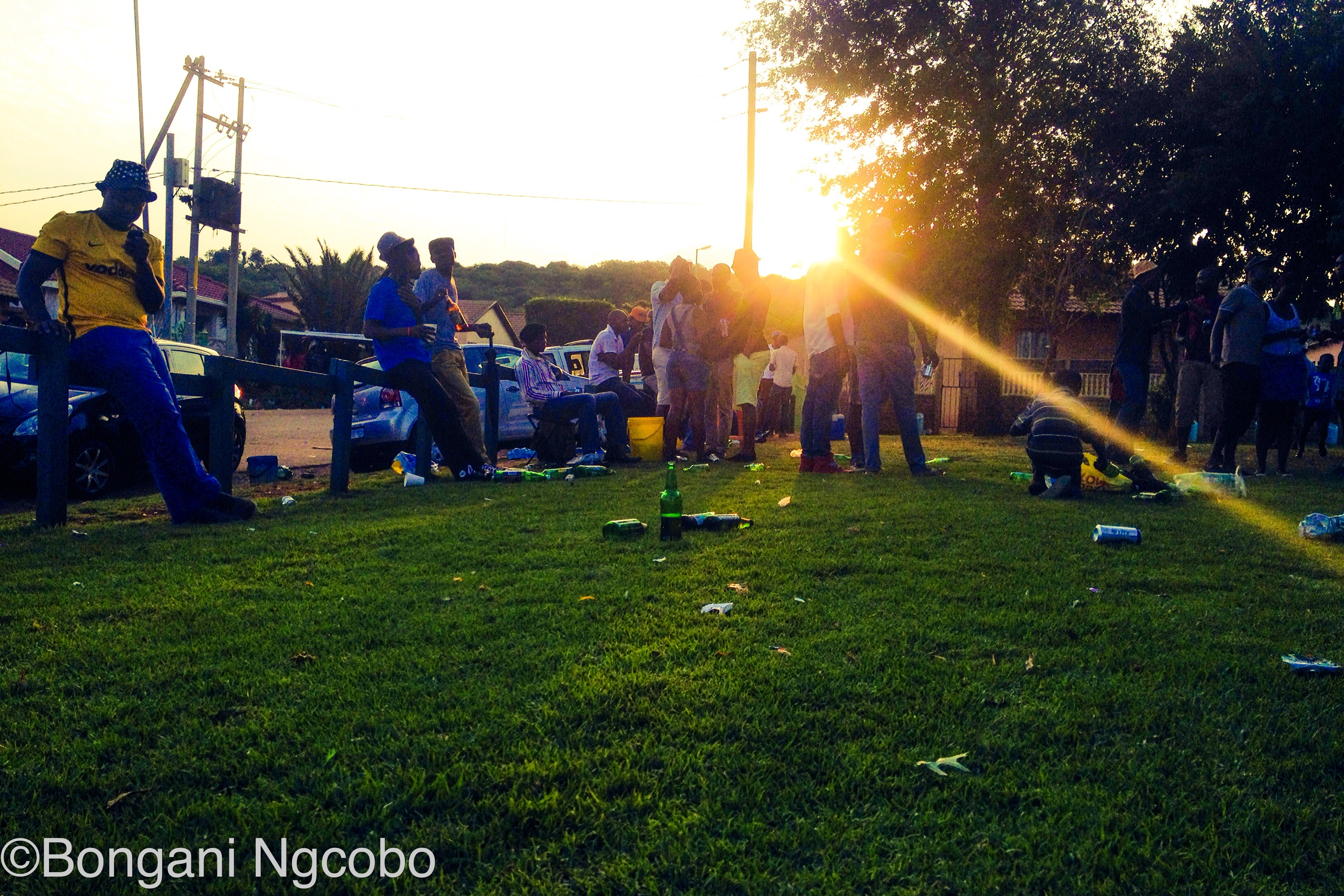 Residents of Orange Farm chilling on a Sunday afternoon. This happens every weekend.